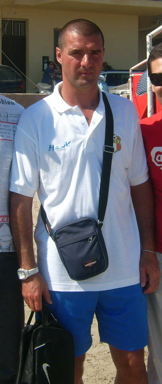 Filippo Maniero before Beach Soccer's match at Sciacca (Ag) Sicily